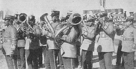 Manchukuo Military Band